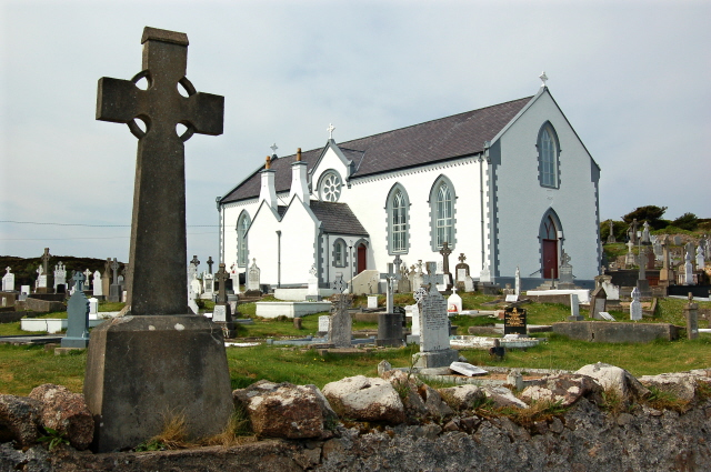 Belcruit - St Mary's Catholic Church Daniel O'Donnell attended this church throughout his life. His father is buried in this cemetery. His wedding to Magella took place here.